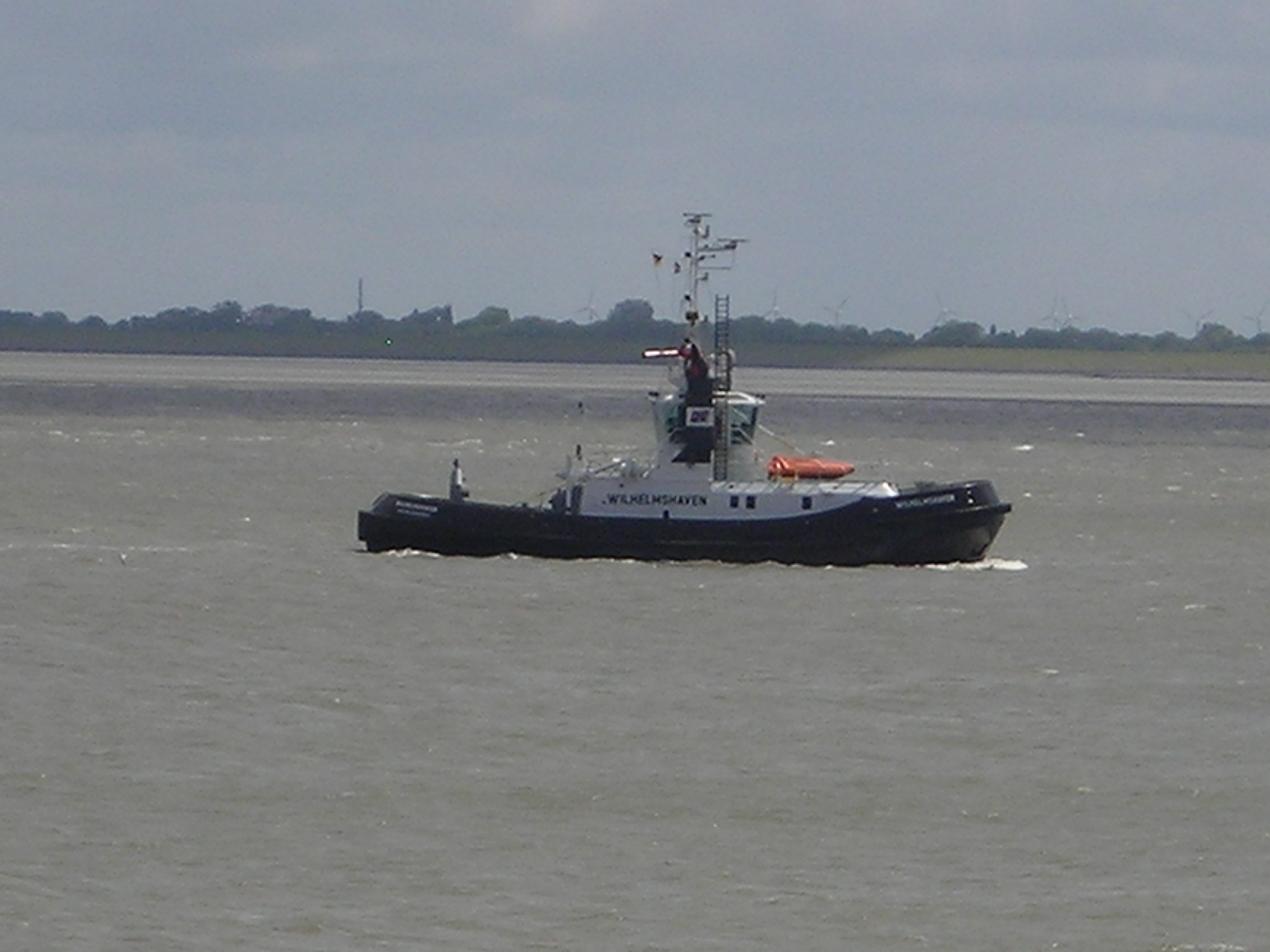 Tugboat Wilhelmshaven belonging to the URAG shipping company on the Jade river off Wilhelmshaven (technical details)